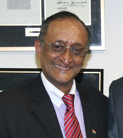 Ambassador Roemer met with Federation of Indian Chambers of Commerce and Industry (FICCI) Secretary General Amit Mitra February 14 to discuss progress on key bilateral economic issues since President Obama's November visit. They also discussed the President's National Export Initiative and barriers to market access.